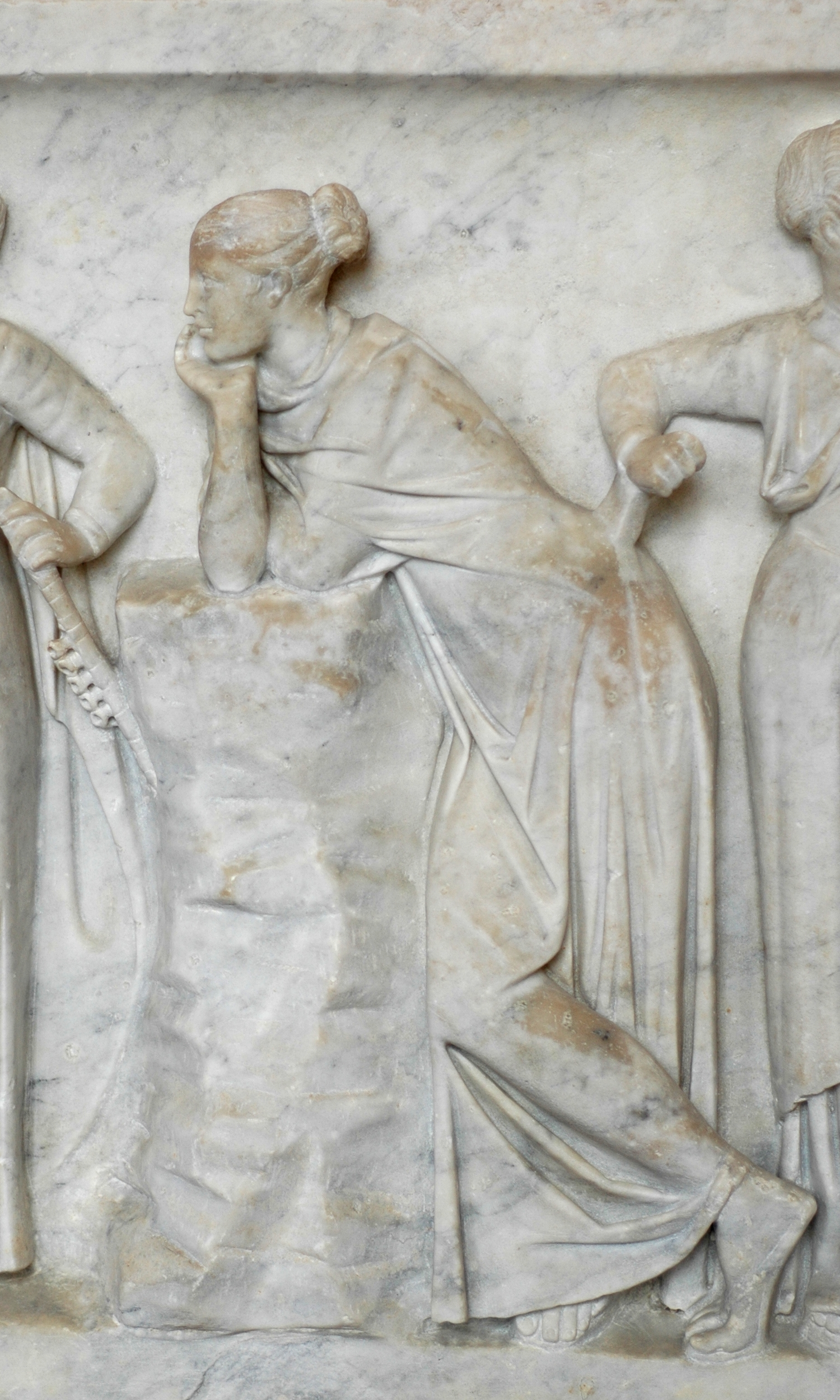 Polyhymnia, muse of sacred poetry. Detail from the “Muses Sarcophagus”, representing the nine Muses and their attributes. Marble, first half of the 2nd century AD, found by the Via Ostiense.